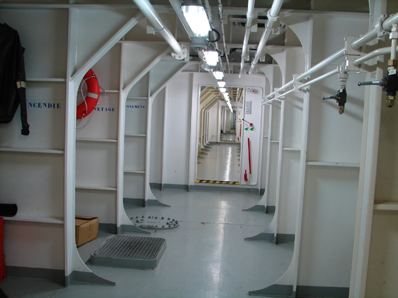 Coridor with watertight doors onboard the dredge Samuel De Champlain.